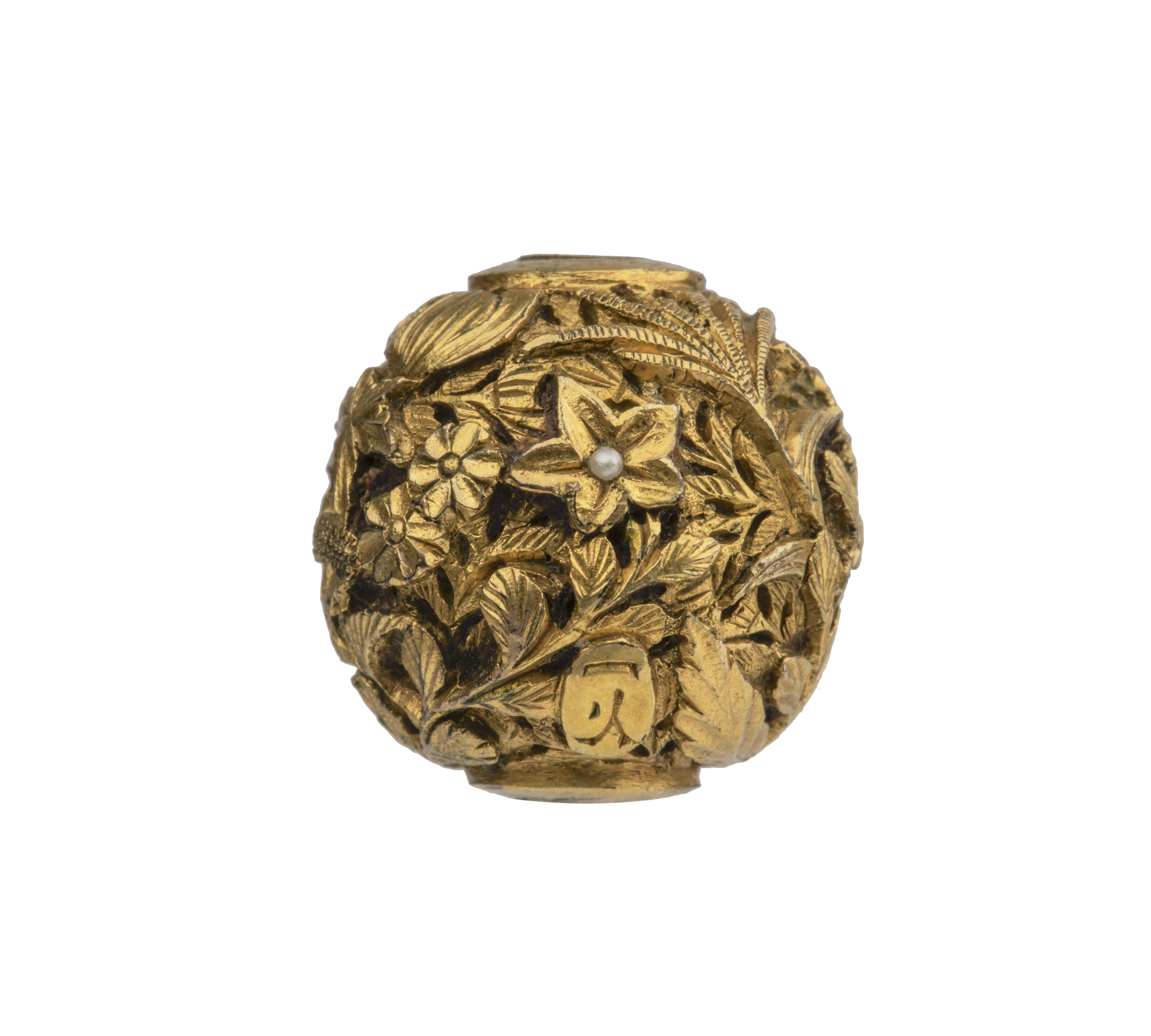 This is a picture of a Meiji period gilt bronze Japanese Ojime bead